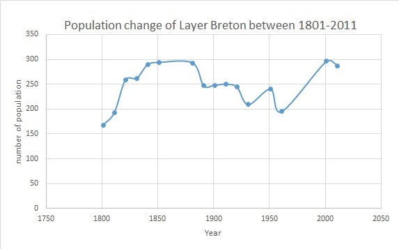 iuoik